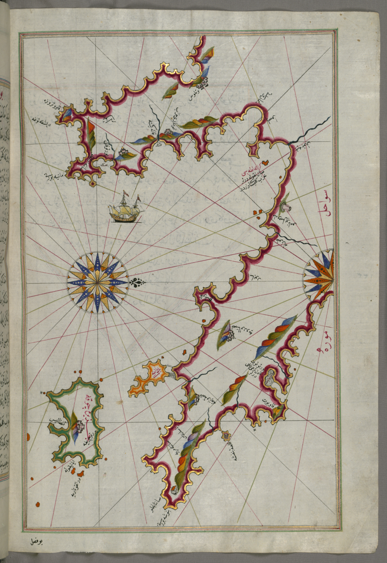 This folio from Walters manuscript W.658 contains a map of the Peloponnese (Morea, Mora) peninsula with the island of Kythira (Cerigo, Coke) and the Lakonikos Bay.